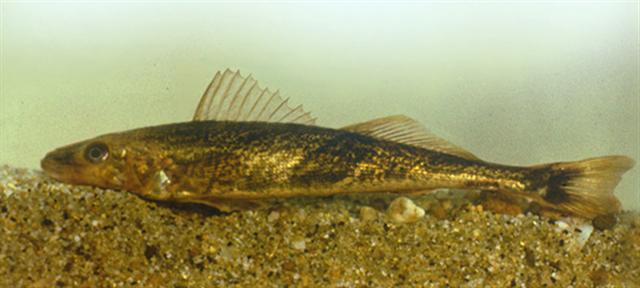 Zingel zingel collected in Tisza river, Hungary.